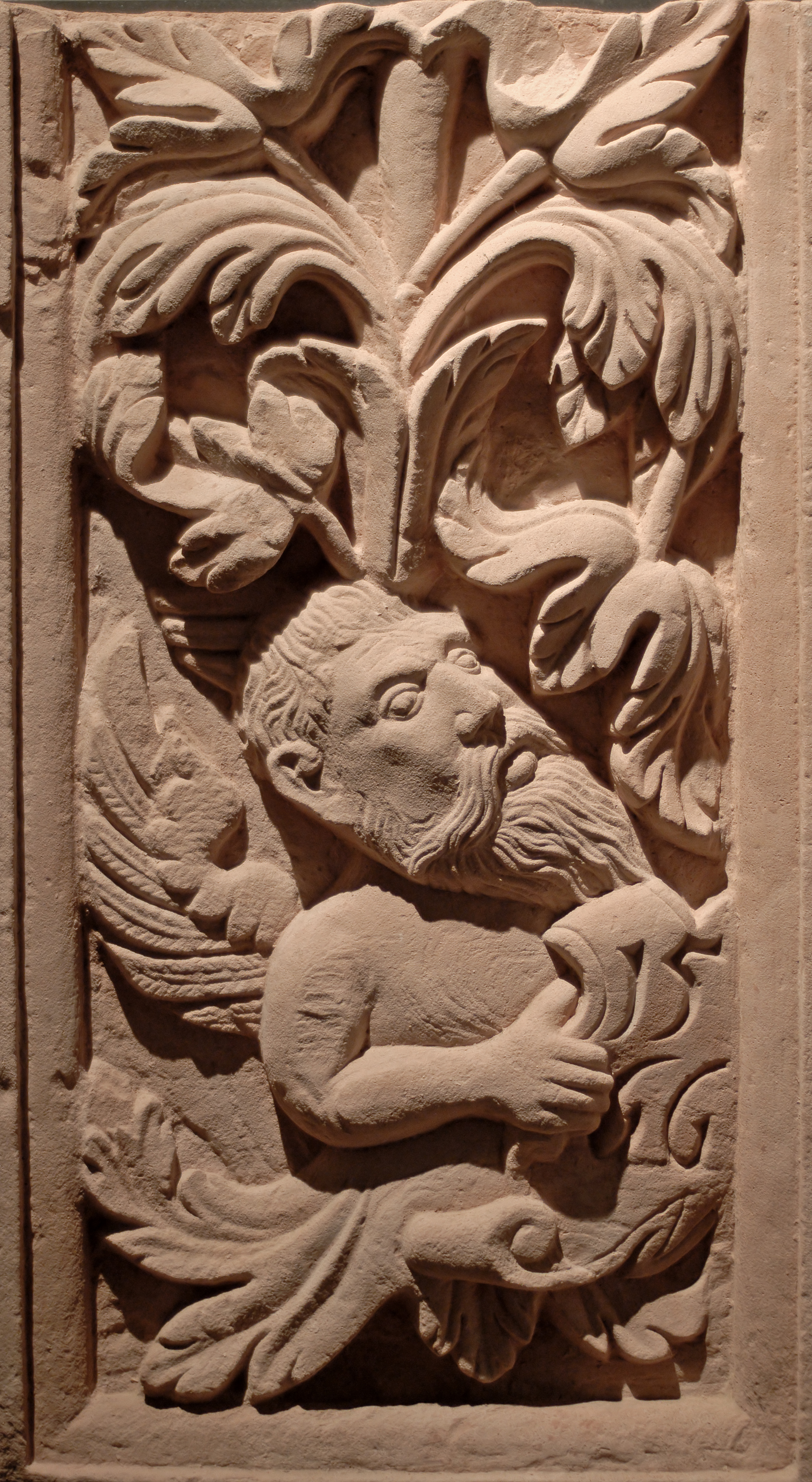 This image shows a molding of a relief with the portrait of an old man. It is interpreted as the self-portrait of the master builder Caspar Vischer and dated to the year 1566.